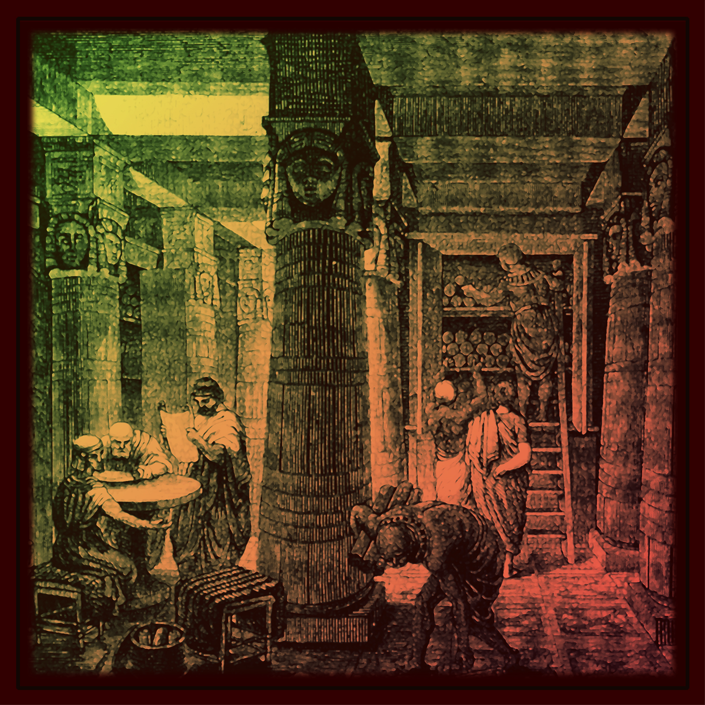 The original image is a photograph of a 19th-century B&W Artistic Rendering of the Library of Alexandria by O. Von Corven, created based on some archaeological evidence. It was uploaded to Wikimedia Commons and released to the public domain by Domitori 26 June 2007. This version of the image has been resized and colorized by K. Vail Abdelhamid (user:aishaabdel) December 2015.